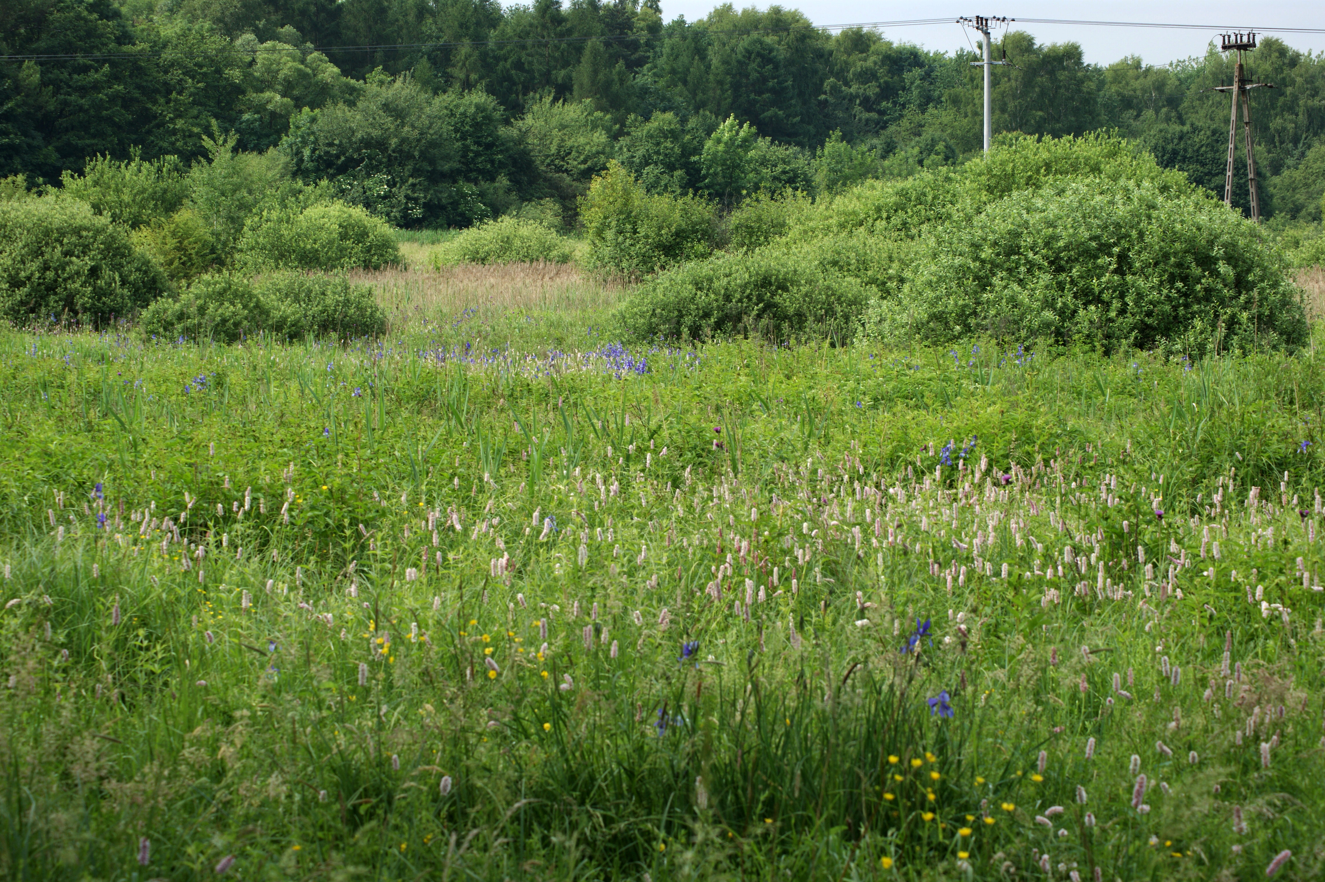 Wet meadow with Siberian Iris (Iris sibirica), Winnicka street, Kostrze, Krakow, Poland